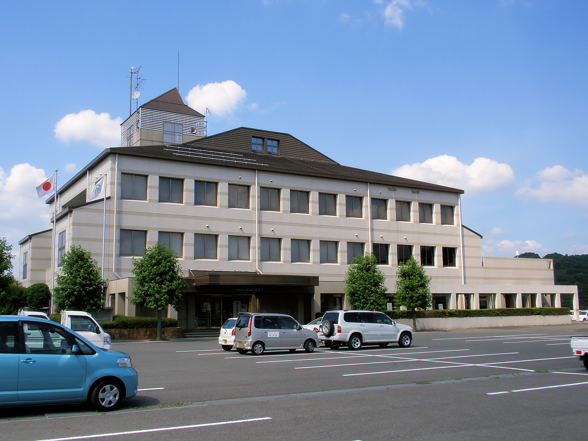 Mimasaka city office Katsuta branch Former Katsuta town office (1992.9 - 2005.3.30)